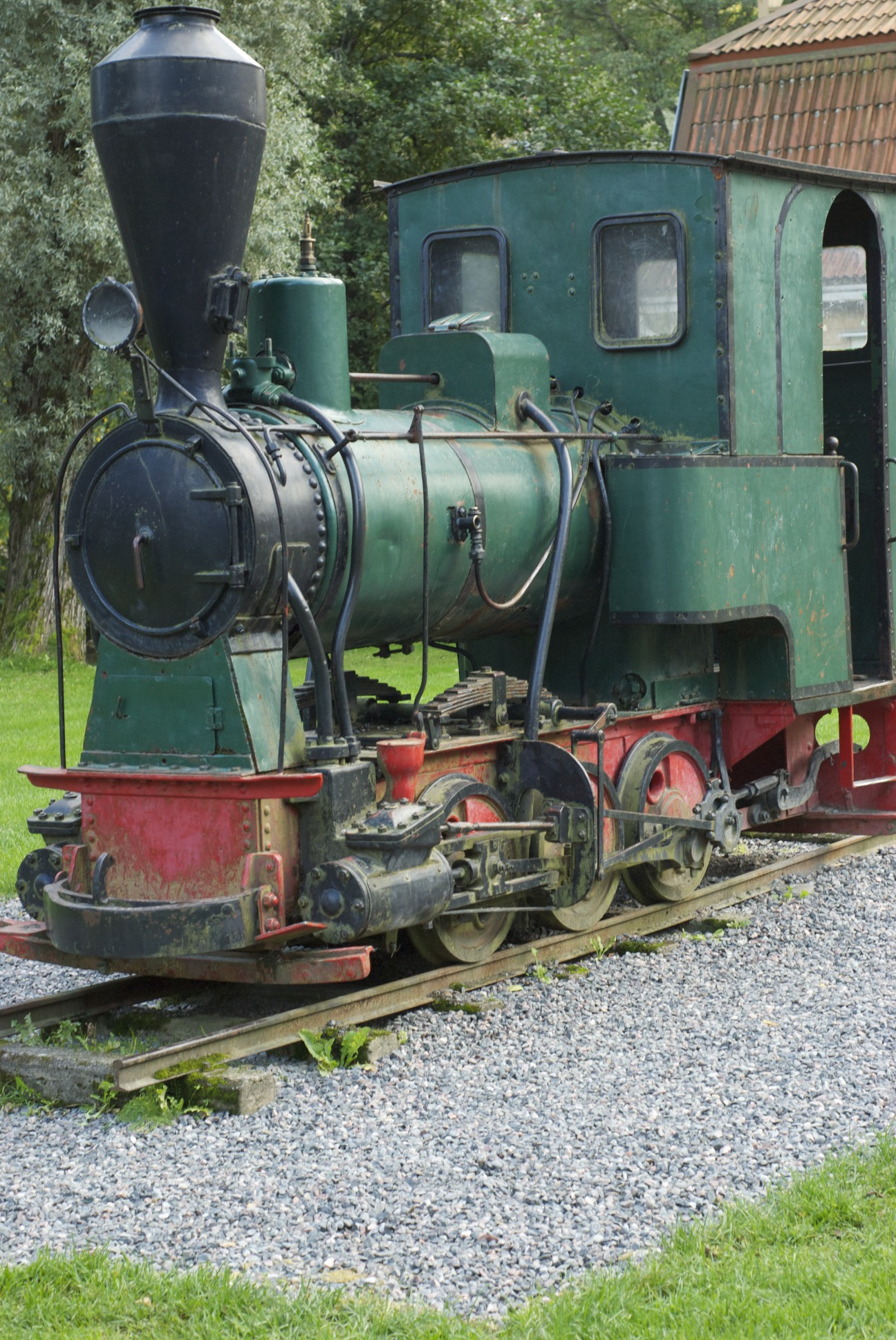 Locomotive used in Fiskarsin–Pohjankuru narrow gauge, Fiskars, Uusimaa, Finland. This locomotive was operative until 1952. It was used on a narrow-gauge railway between the Fiskars ironworks village and the port of Pohjankuru in Finland. The locomotive was known as Pikkupässi (Little Ram).